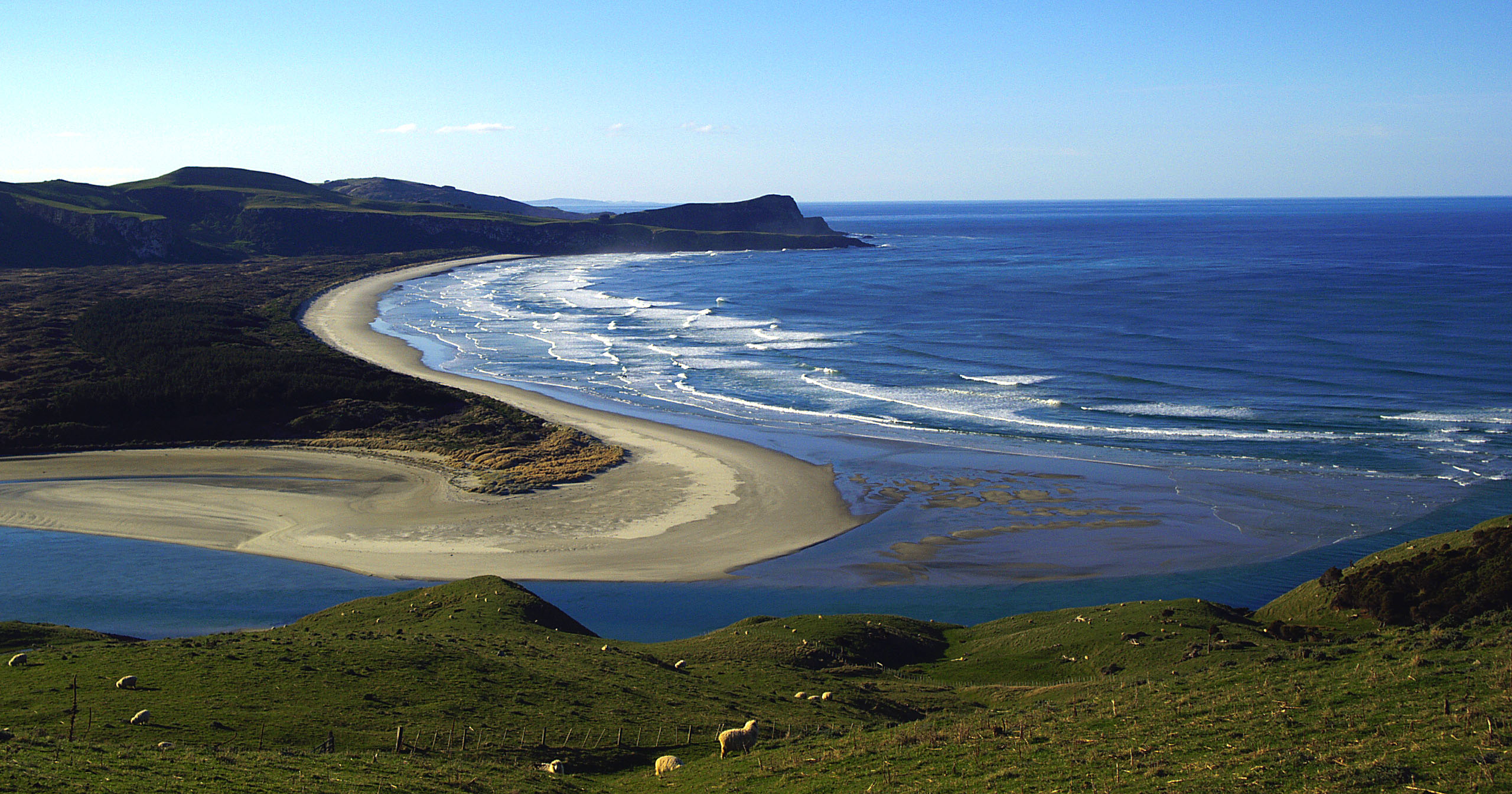 Victory Beach and Wickliffe Bay from Cape Saunders, Otago Peninsula, Dunedin, New Zealand.